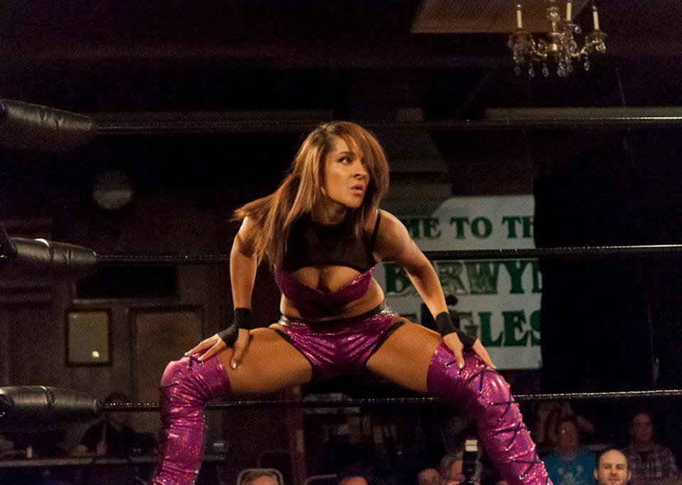 Evie at SHIMMER Women Athletes April 2013